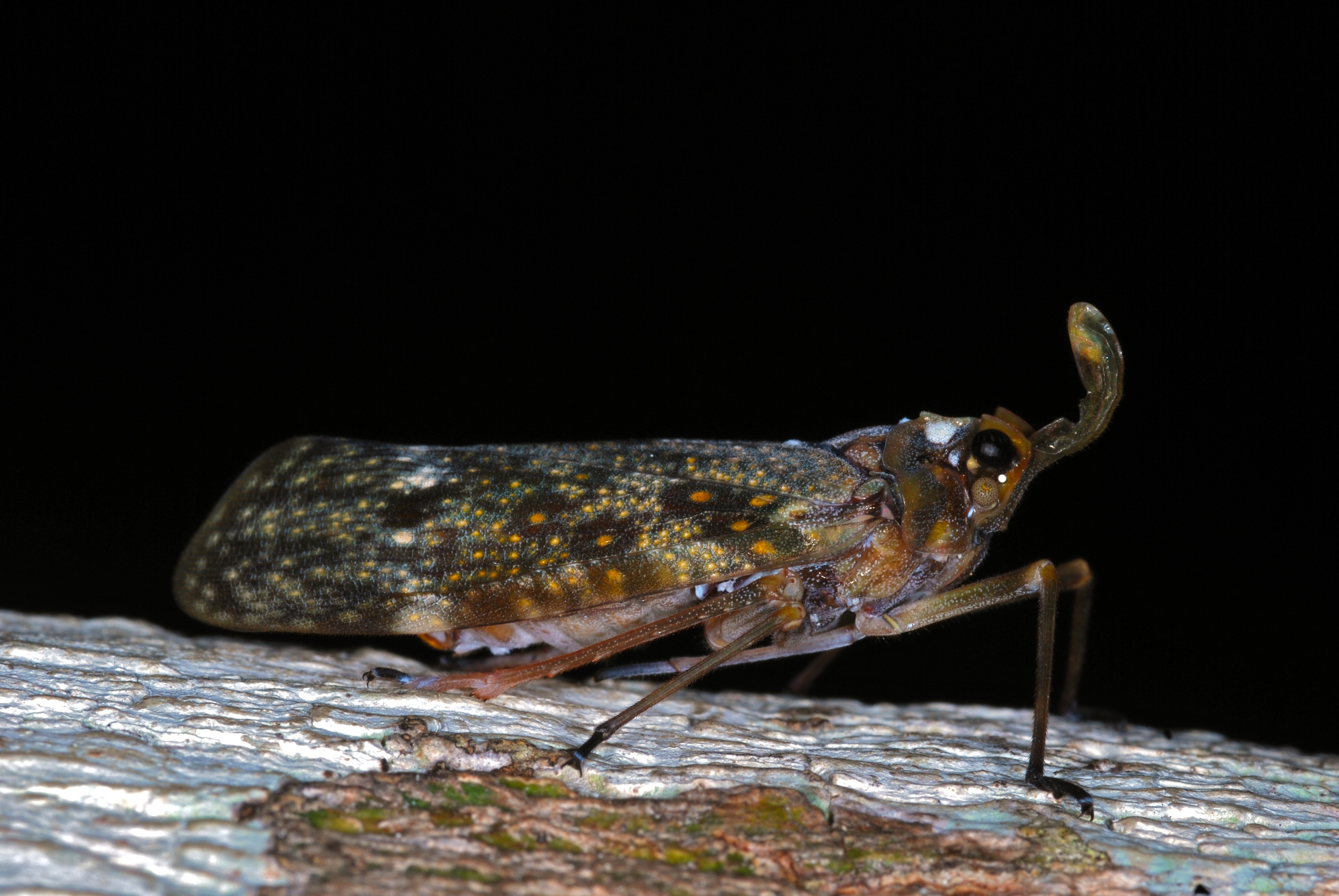 Black Rock Lodge, San Ignacio, BELIZE